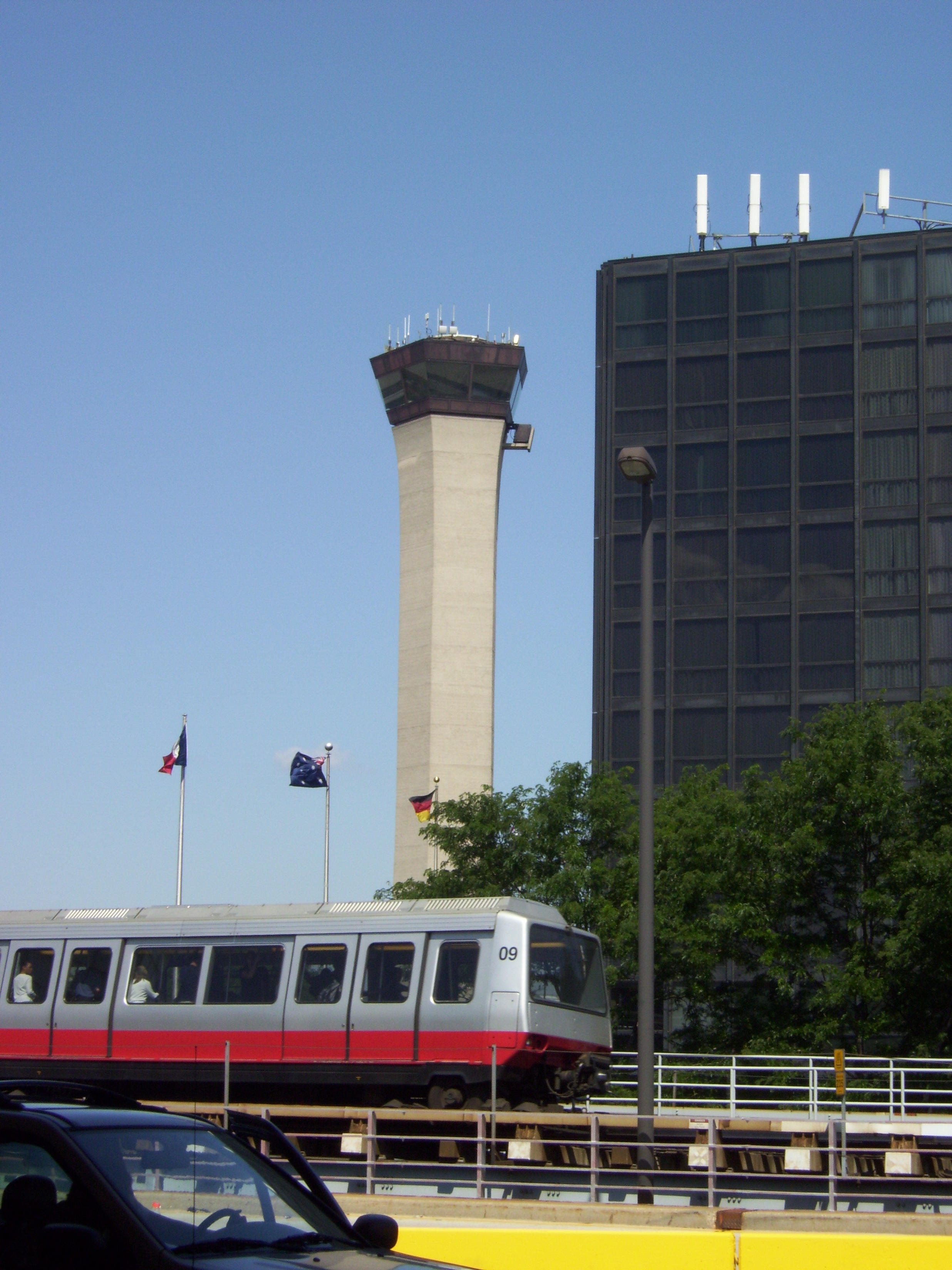 O'Hare International Airport - Airport Transit System with Hilton Hotel in Background